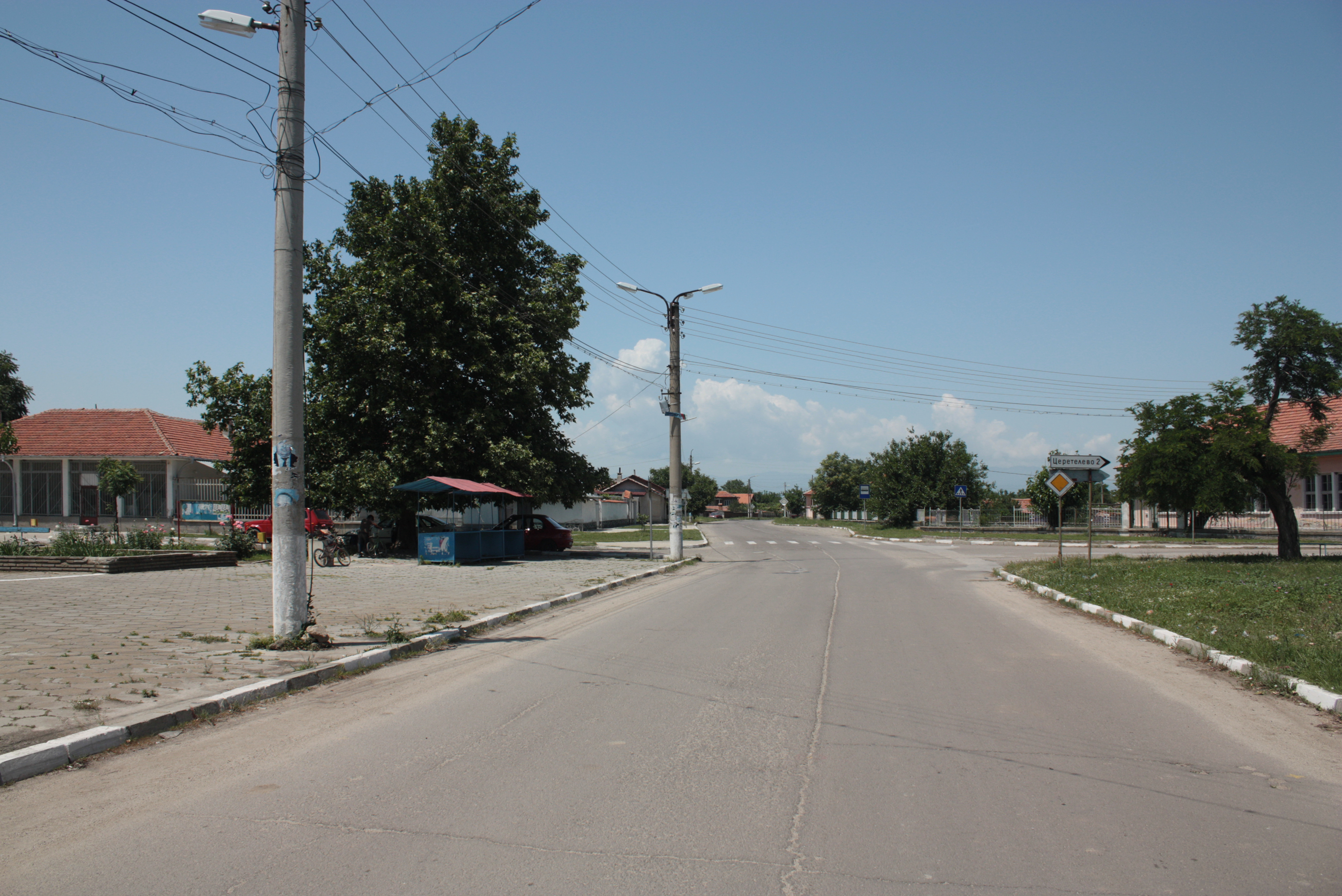 Nedelevo main street, Bulgaria